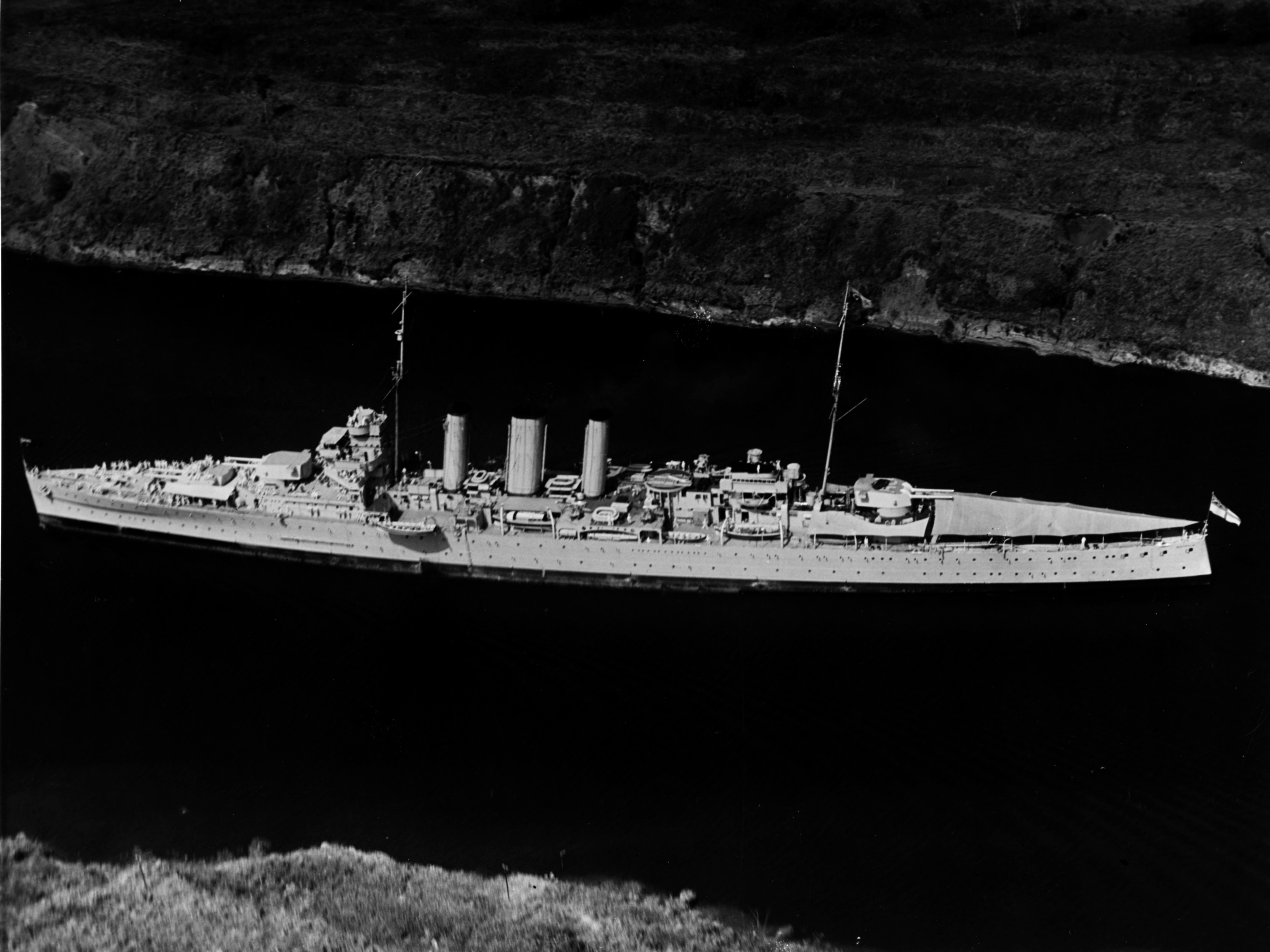 Aerial photograph of the Royal Australian Navy heavy cruiser HMAS Australia (D84) passing through the Panama Canal, March 1935.